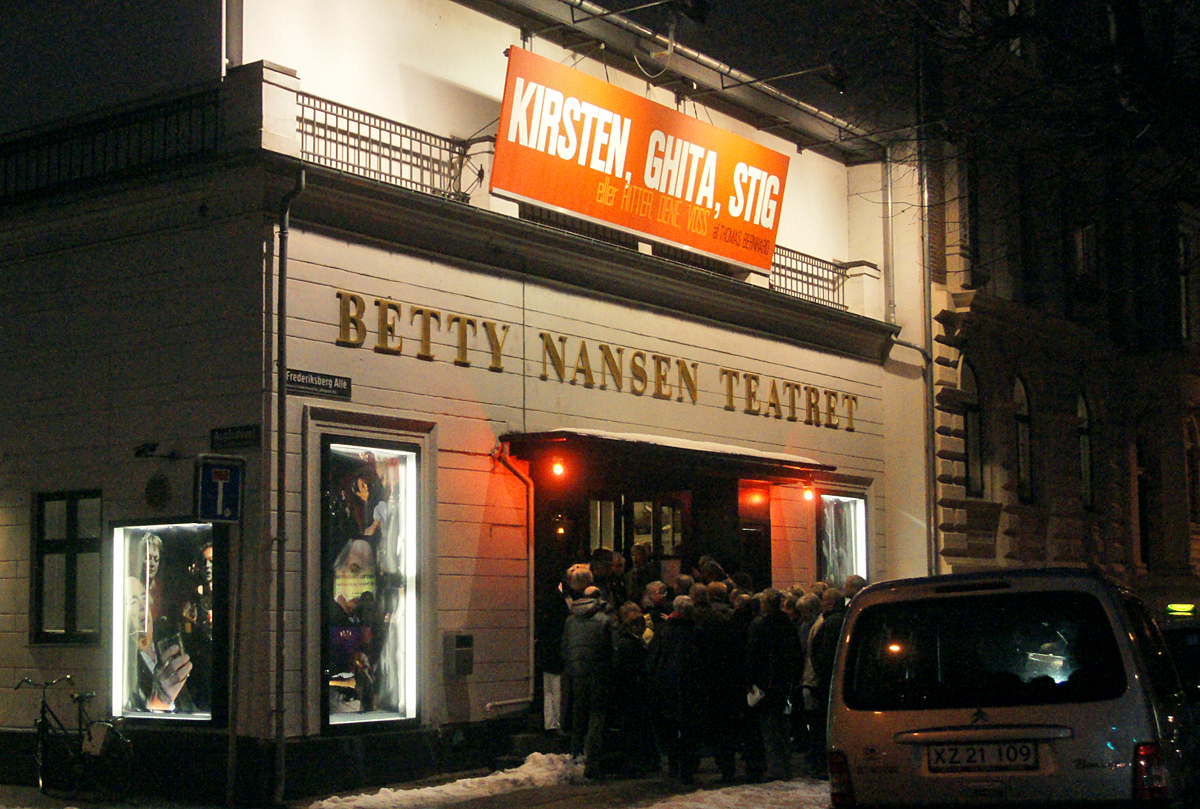 Betty Nansen Teatret - Theater at Frederiksberg Alle 57 in Copenhagen, Denmark